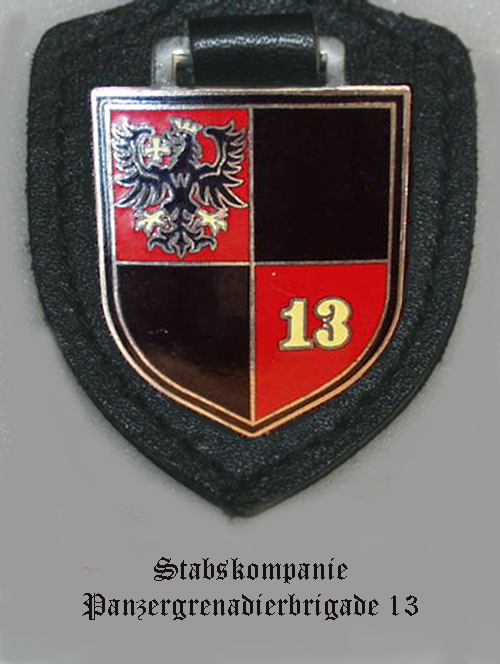 Internal coat of arms Stabskompanie Panzergrenadierbrigade 13 (StKp PzGrenBrig 13) of the Bundeswehr (Armed Forces of the Federal Republic of Germany). → Remarks on naming and categorization scheme